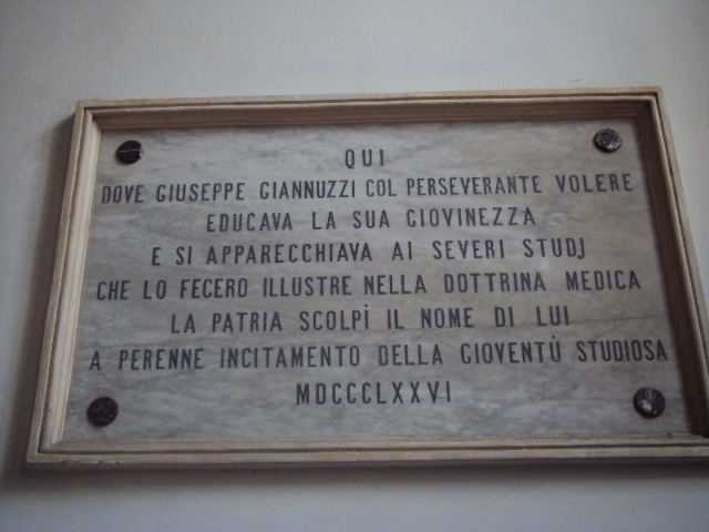 Lapide Giannuzzi